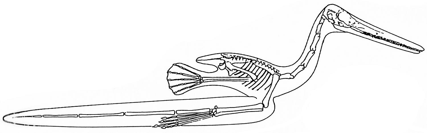 Pterodactylus restored as aquatic, with flippers instead of wings.